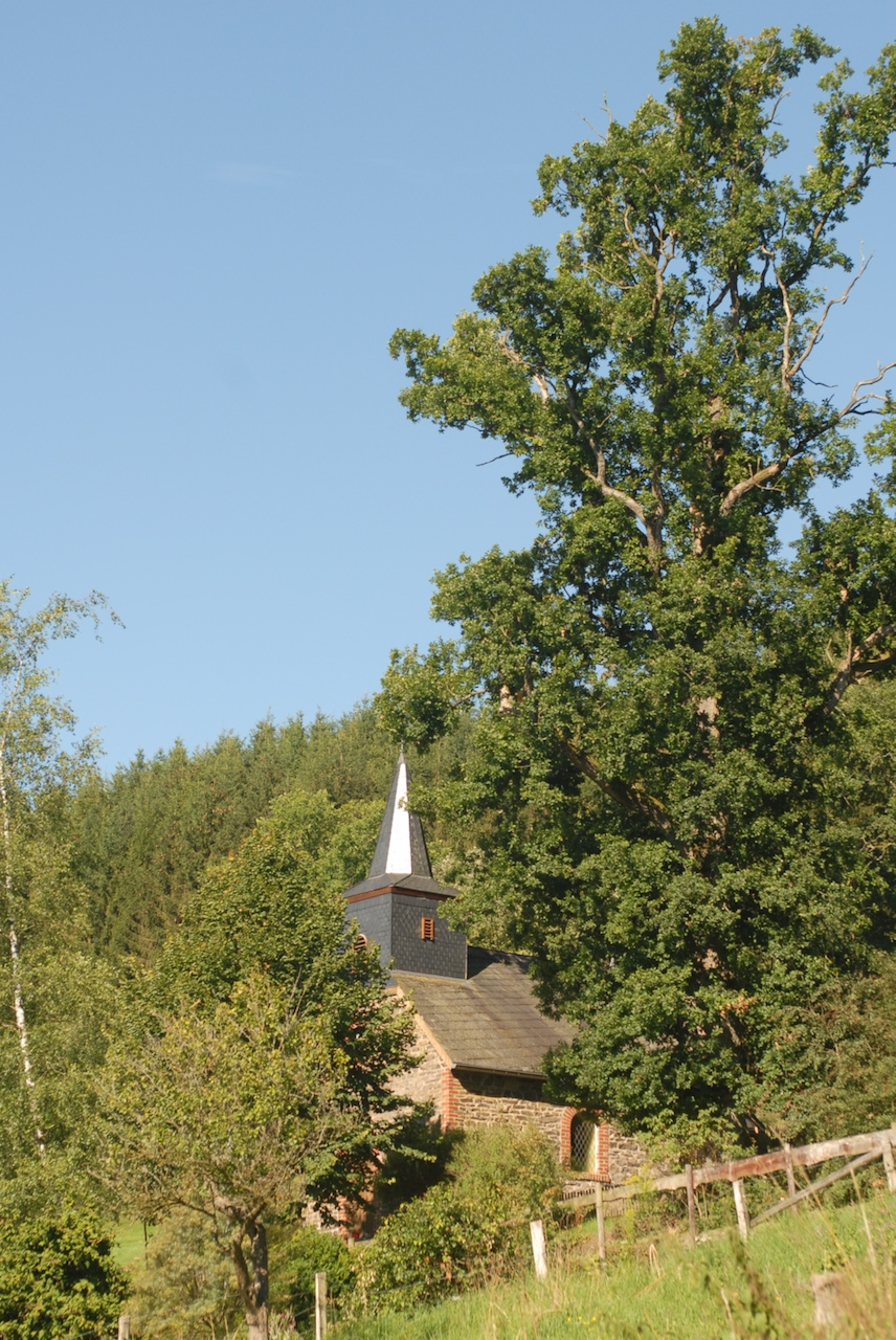 Chapel in Weppeler (B)